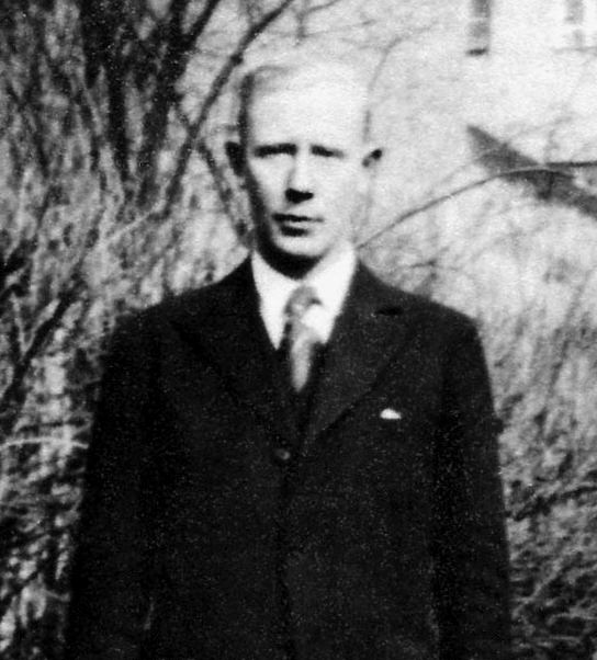 Hans Bothmann (1911 - 1946), as Sturmbannführer (Major) in the SS committed acts of mass-murder in occupied Poland during World War II. He was the commandant of Chełmno extermination camp from 1942.